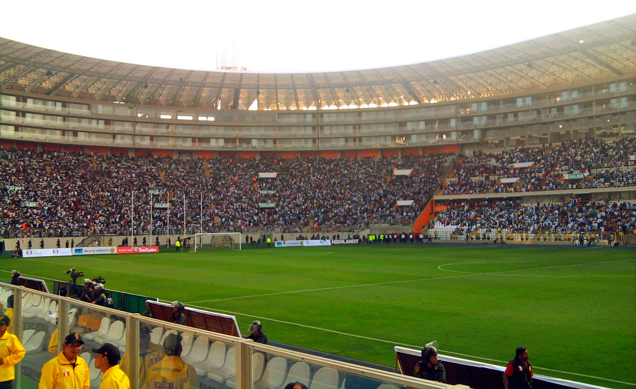 Inside the Estadio Nacional of Lima, Peru.